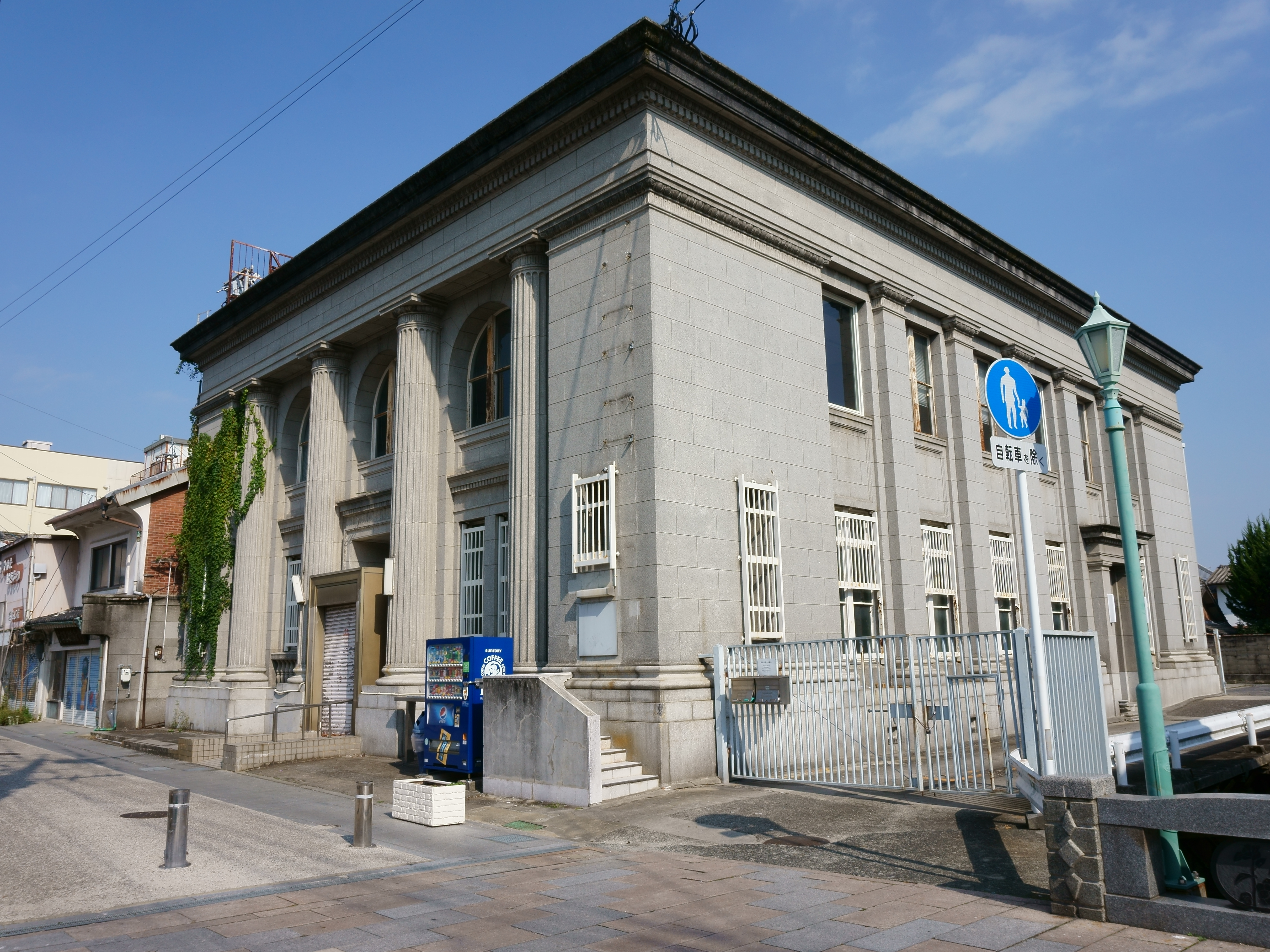 Former the Bank of Saga Gofukumachi Branch building in Gofukumotomachi, Saga city, Saga prefecture.